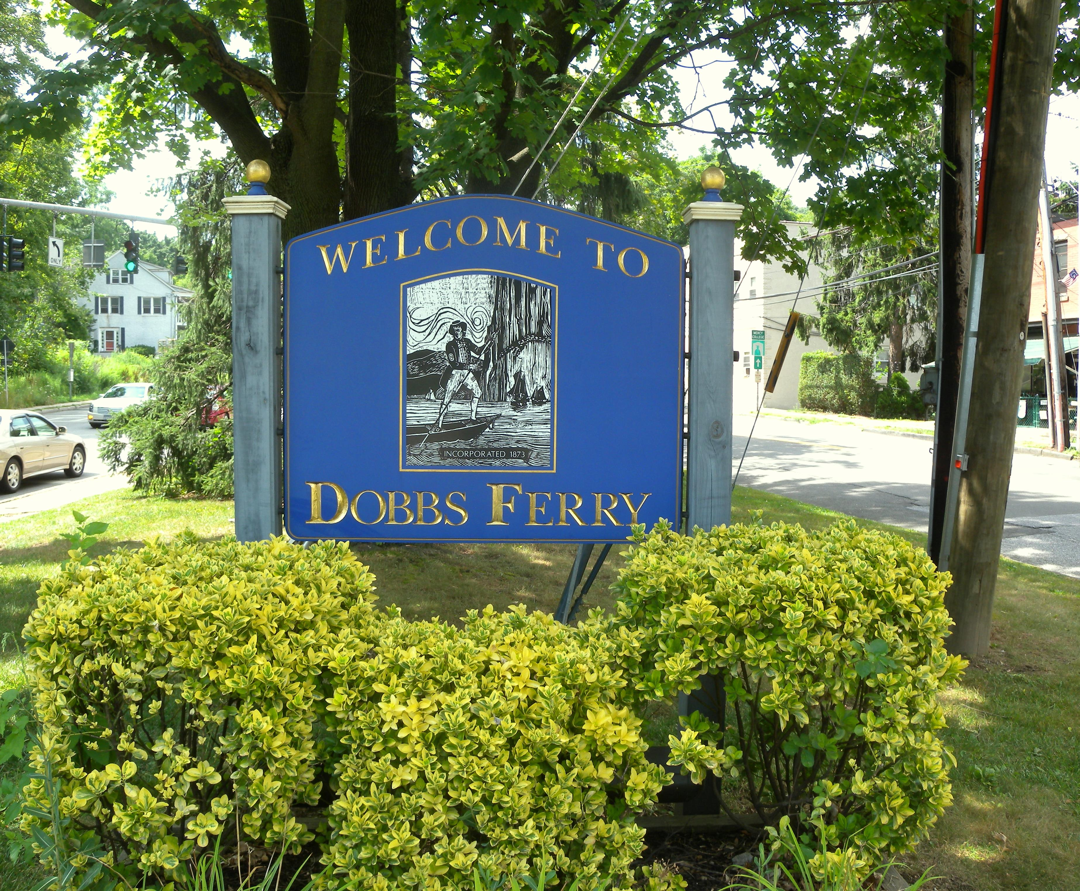 Looking northwest at Dobbs Ferry, New York welcome sign, west of the Ashcroft Avenue bridge from Ardsley.